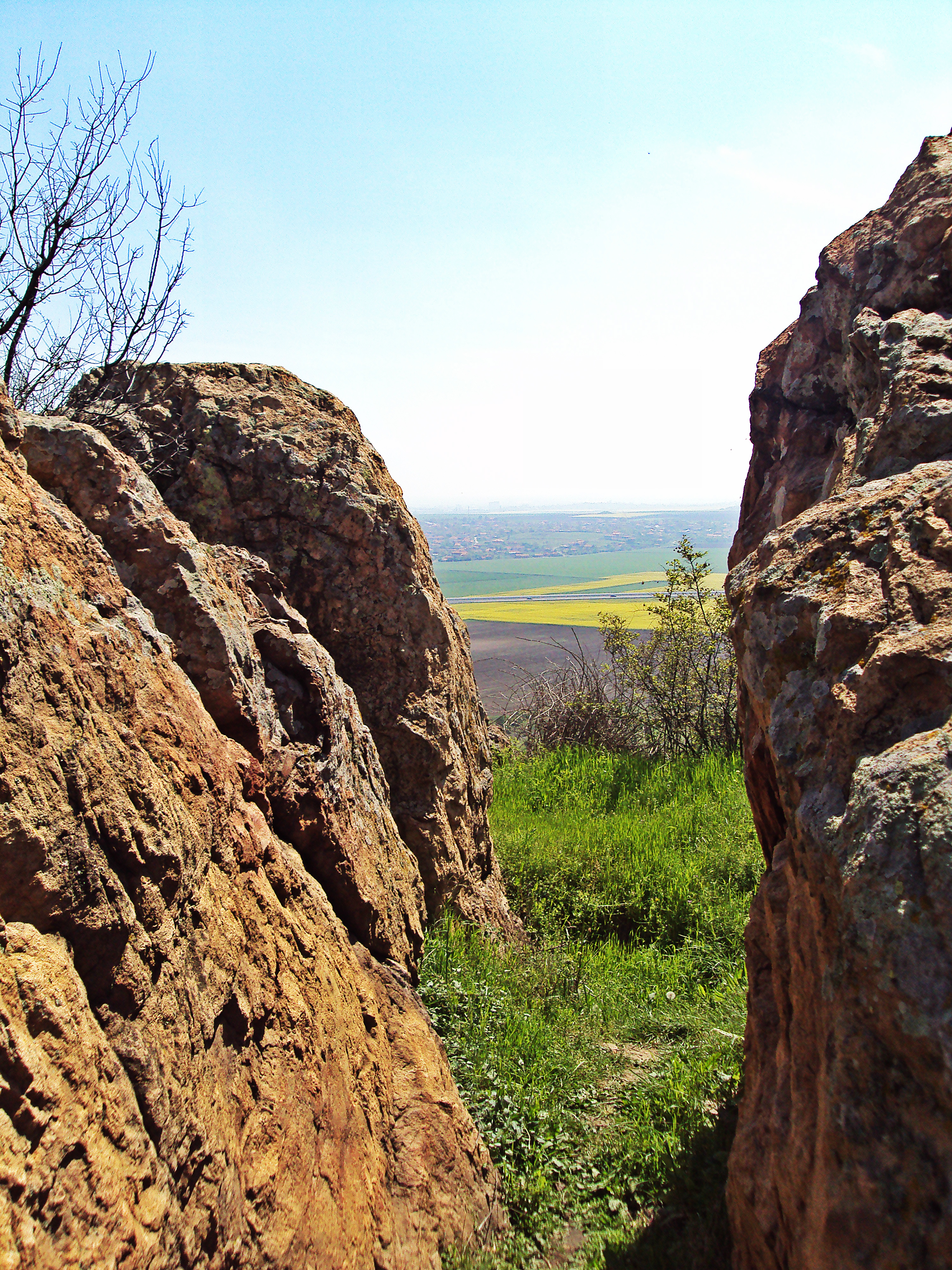 South corridor Kabile Bulgaria